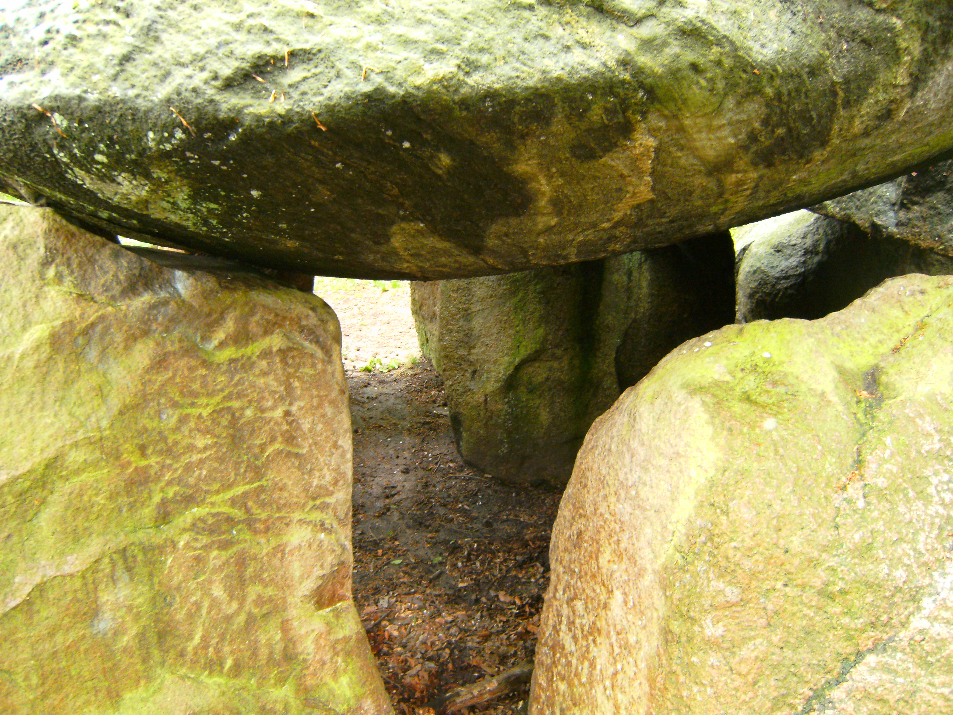 Megalithic burial place southwest of Pöppendorf (Pöppendorfer Großsteingrab) near Lübeck, Germany. Looking through across.